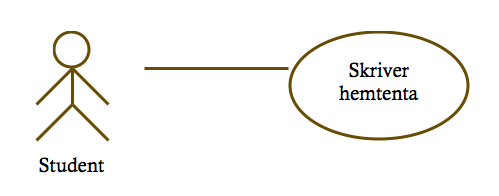 A simple Use Case diagram in swedish